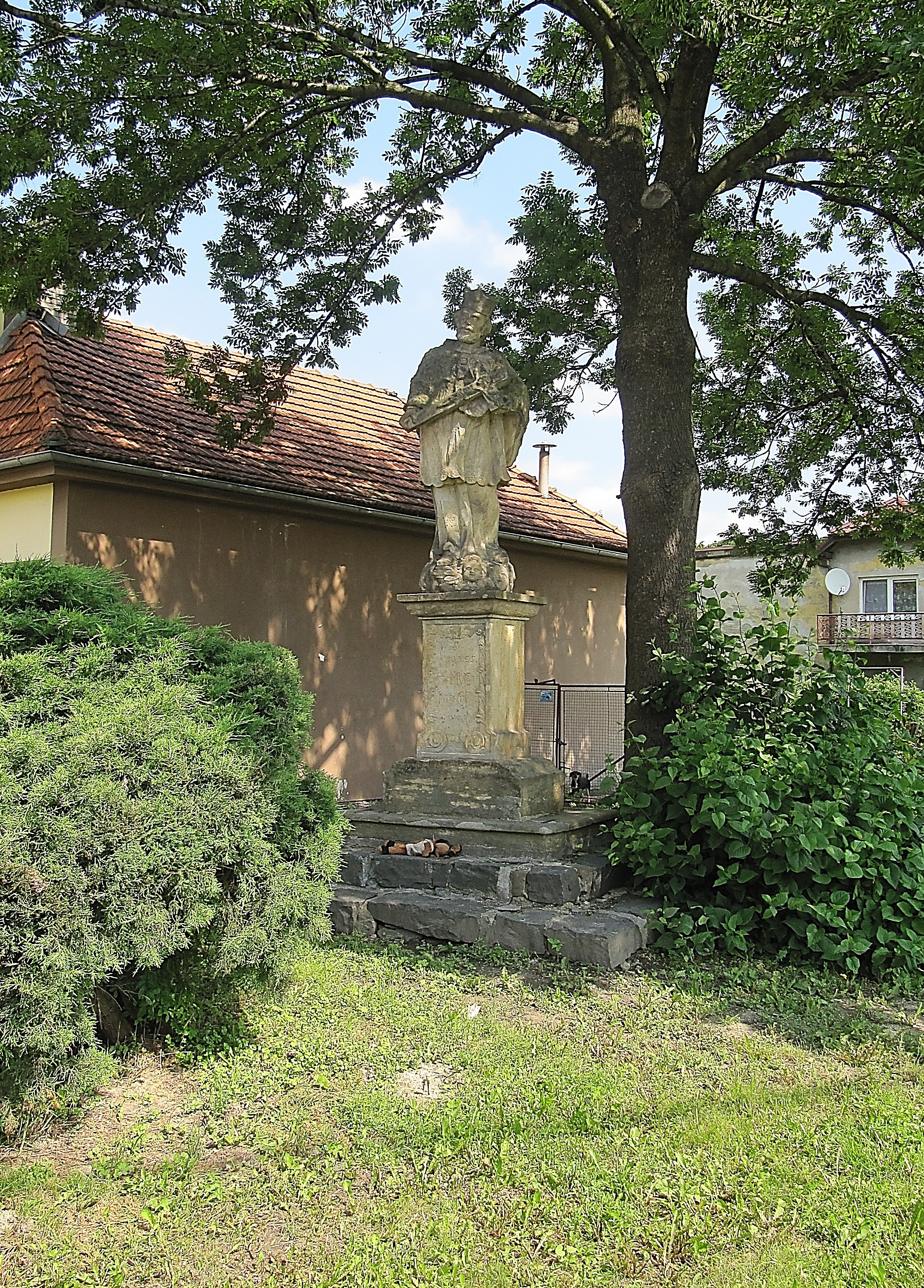 Vražné, Nový Jičín District, Czech Republic. Statue of John of Nepomuk at the house Nr. 11.